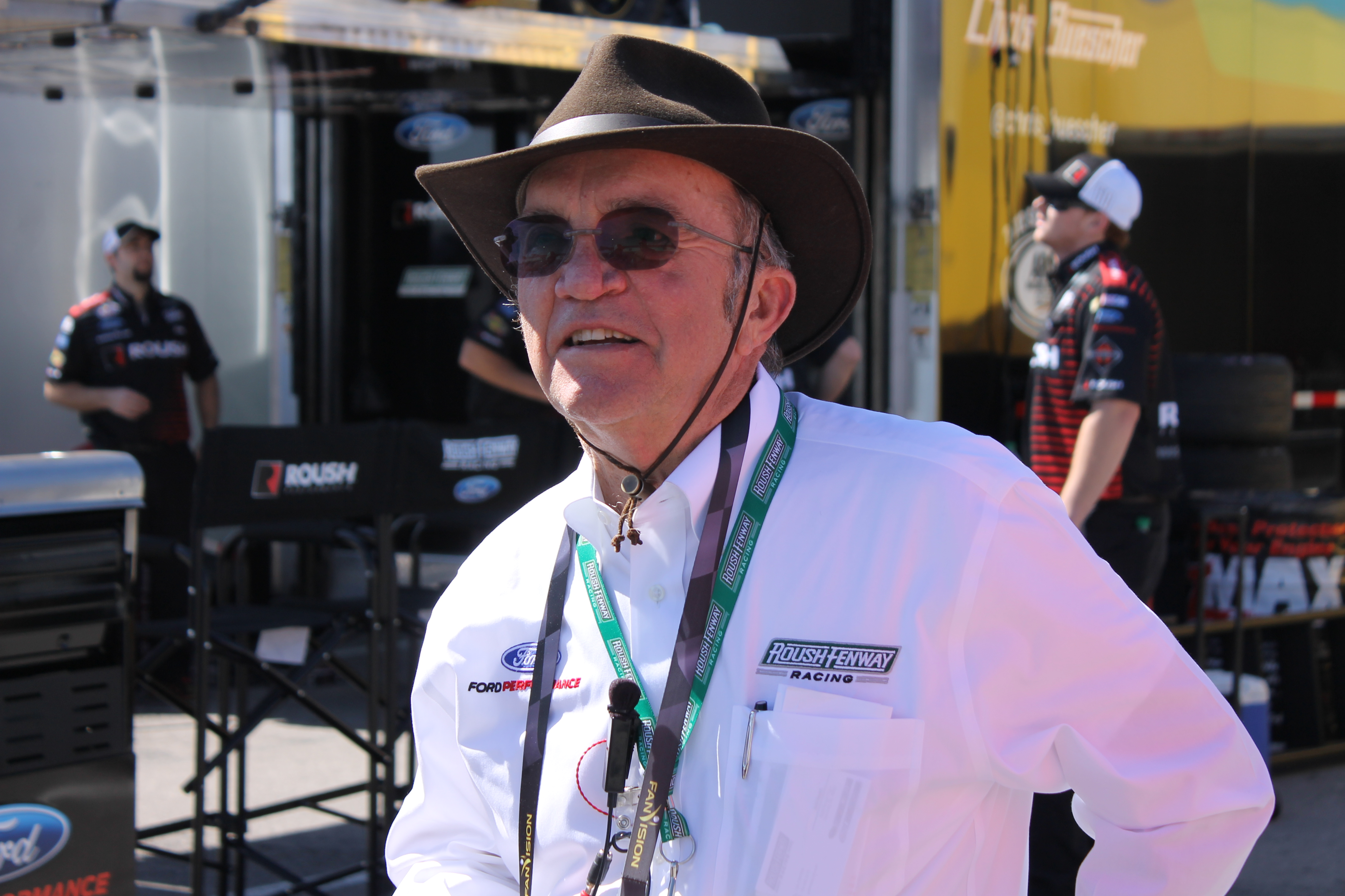 Jack Roush at Las Vegas Motor Speedway - March 2015